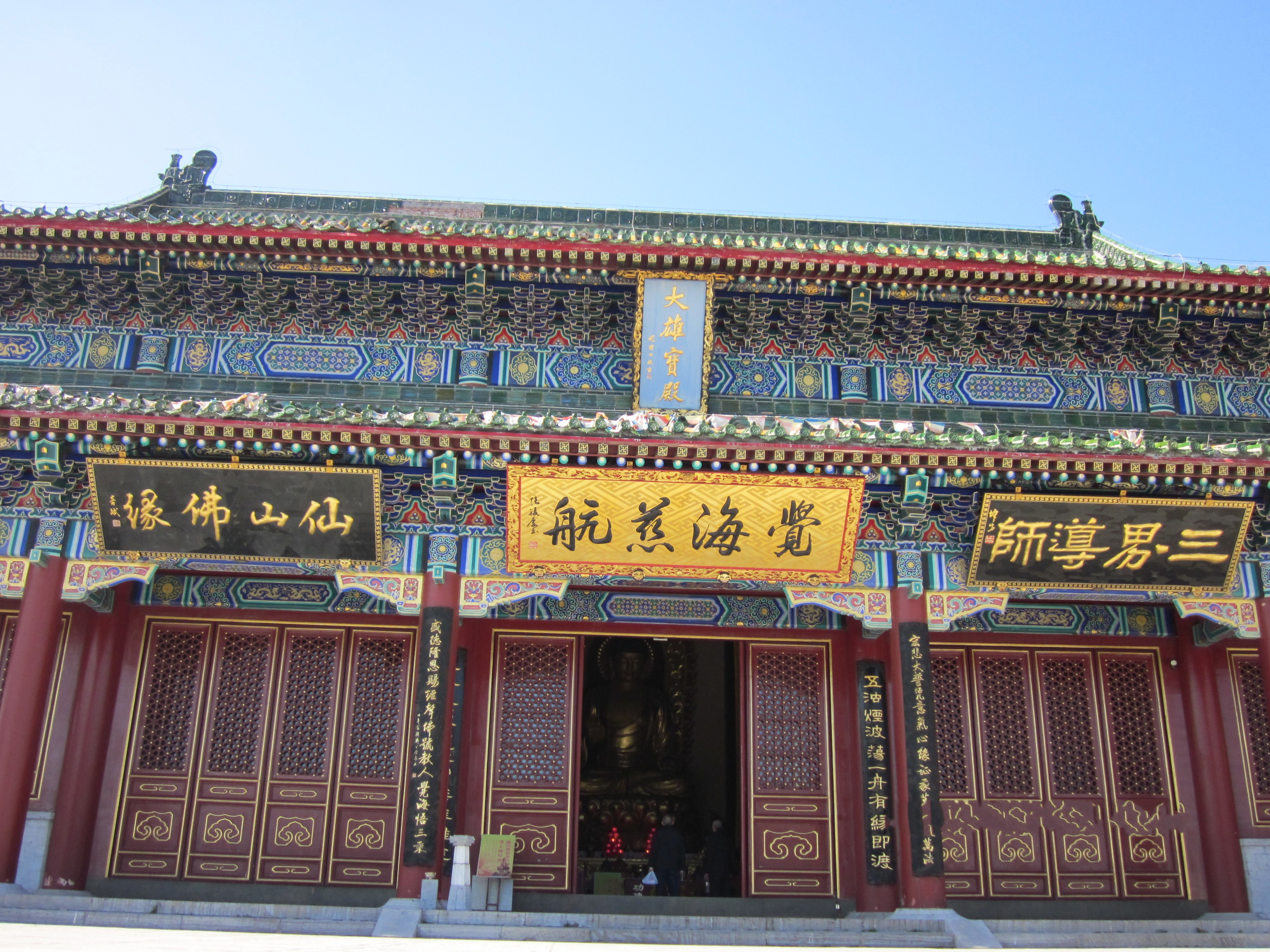 The Mahavira Hall at Tianmenshan Temple, in Changsha, Hunan, China.